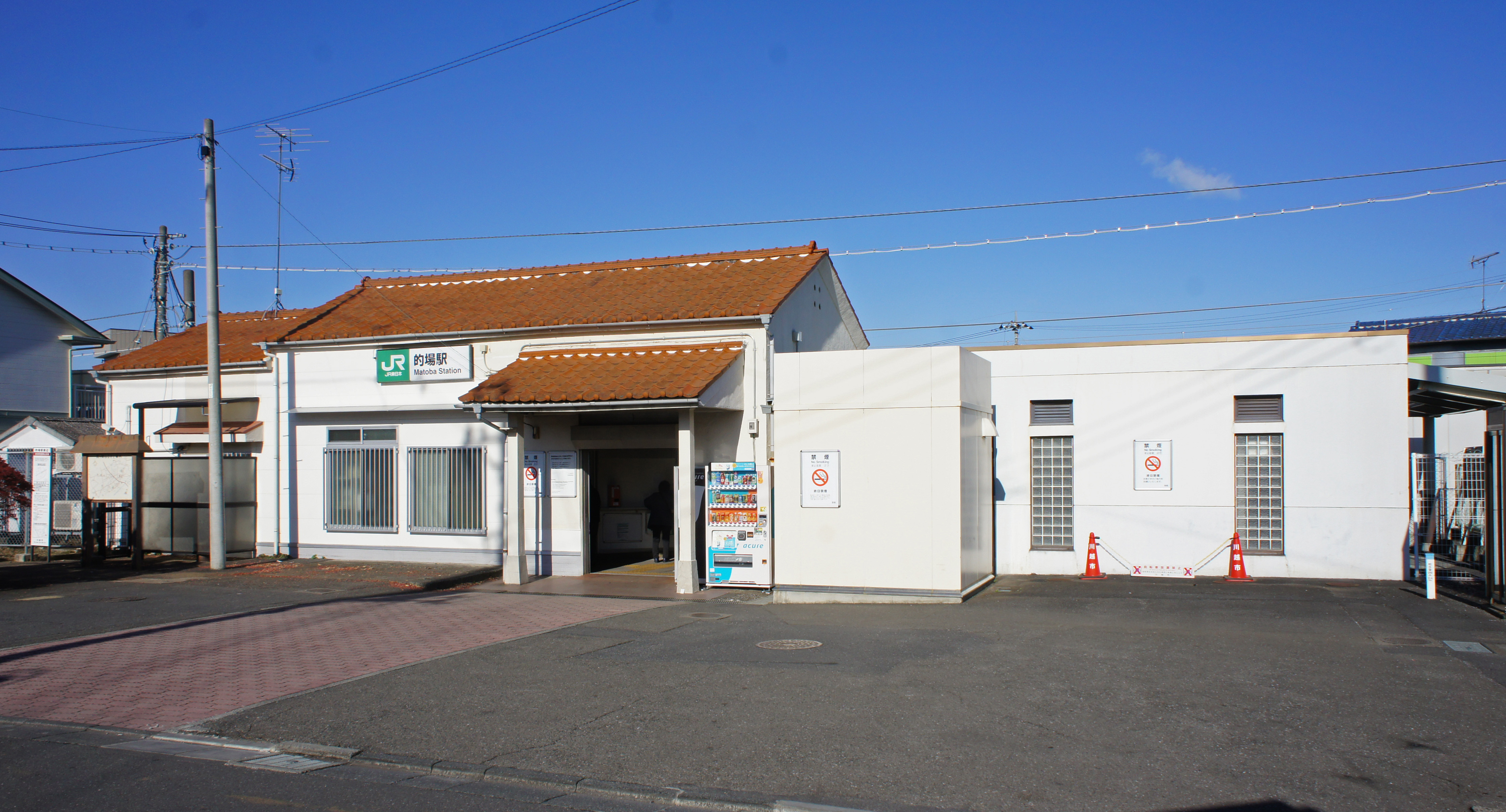 Station building of JR Kawagoe-Line Matoba Station